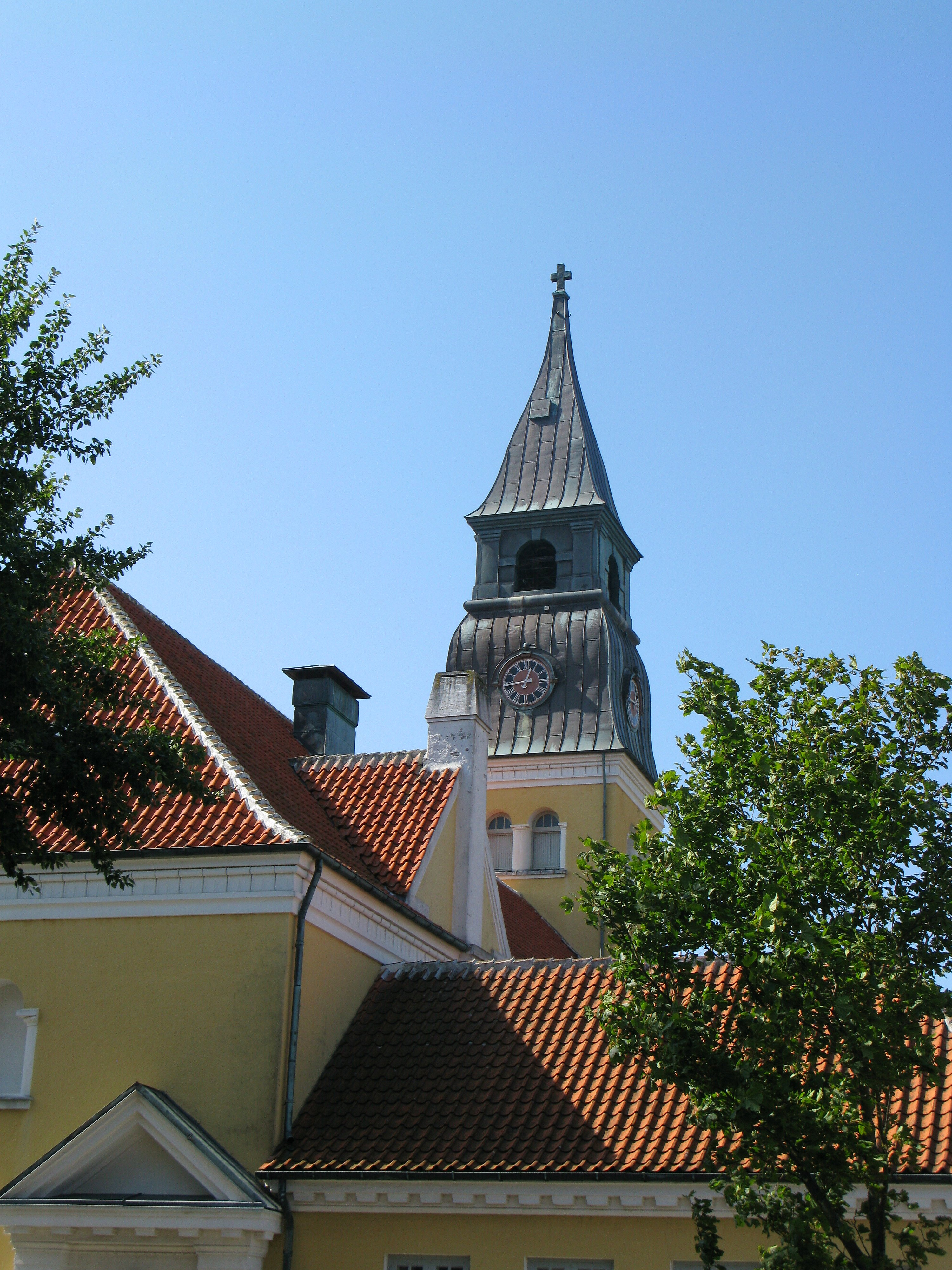 Church of Skagen "St. Laurentii Kirke" - Northern Denmark